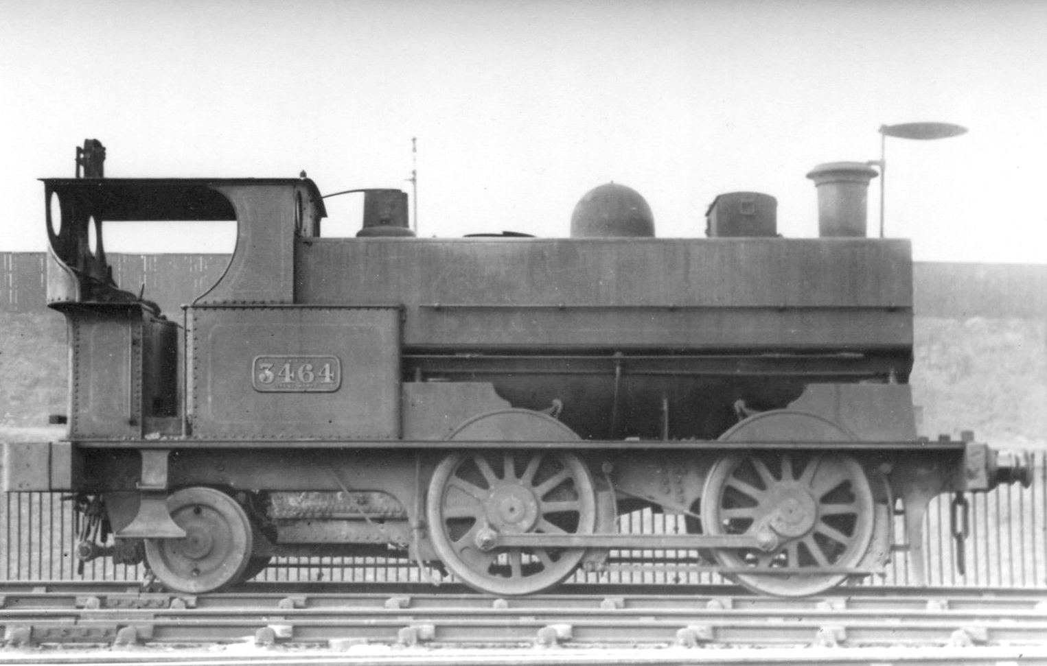 Photograph of LNWR engine No. 3464, 317 Class